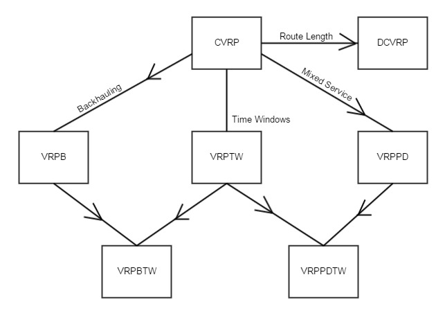 this shows the relationship between subproblems of the vrp, it helps in understanding the various acronyms that exist